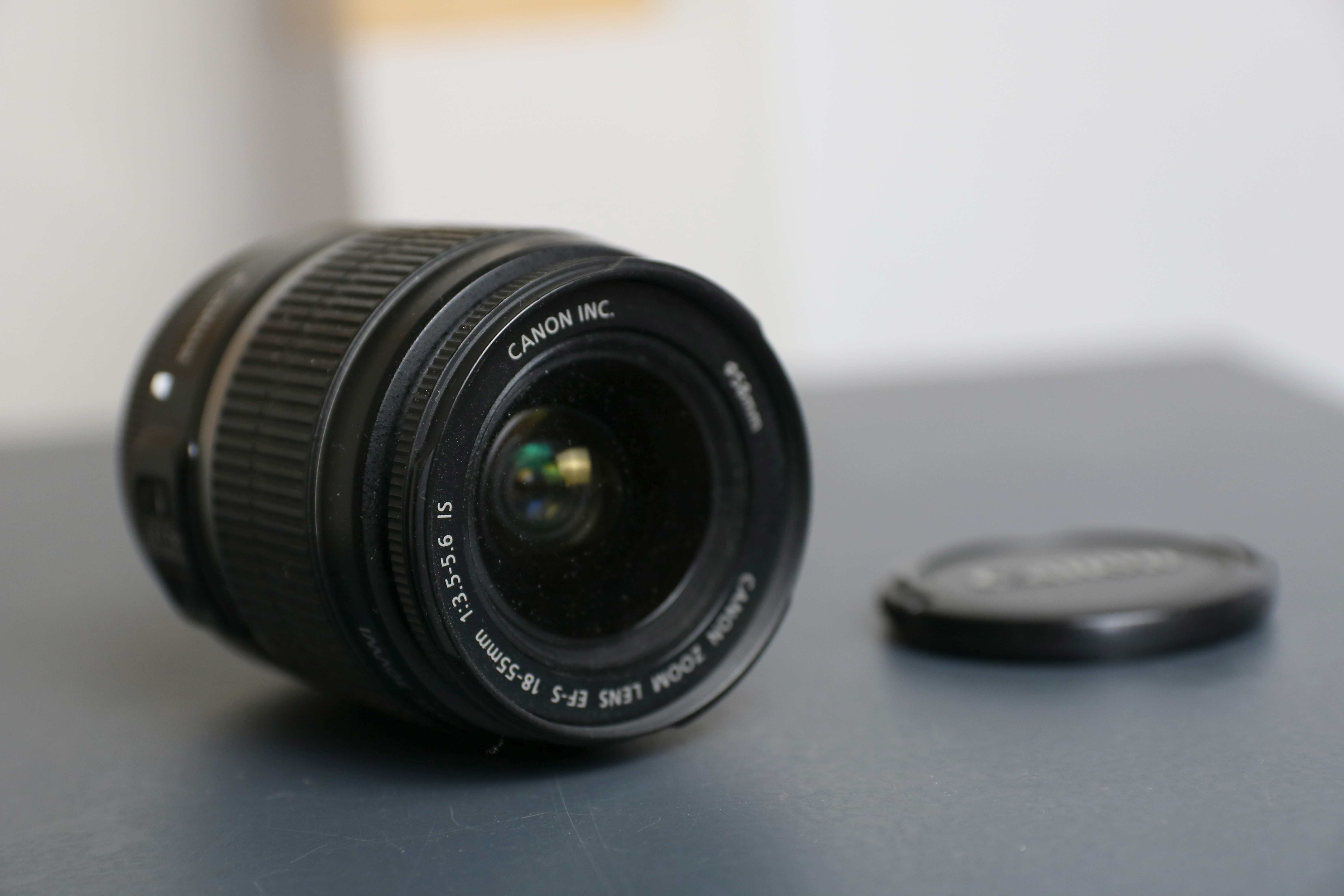 Canon zoom lens - 18-55 mm f / 3.5-5.6 IS